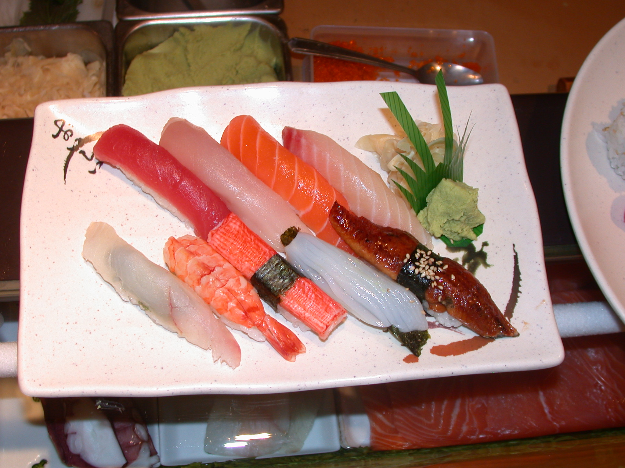 Kawa Sushi in Livermore